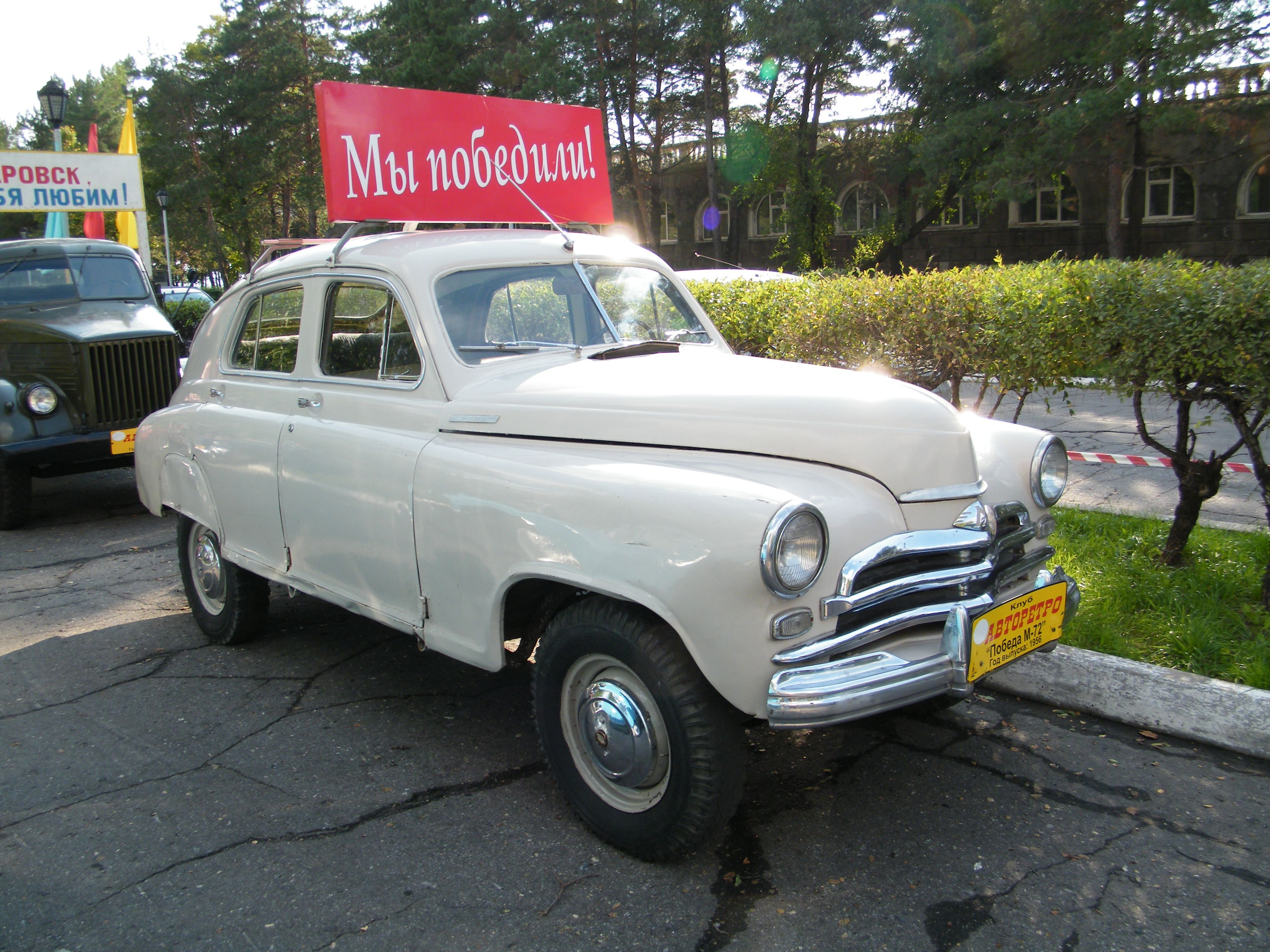 GAZ-M-72 (GAZ-M-20 4x4).